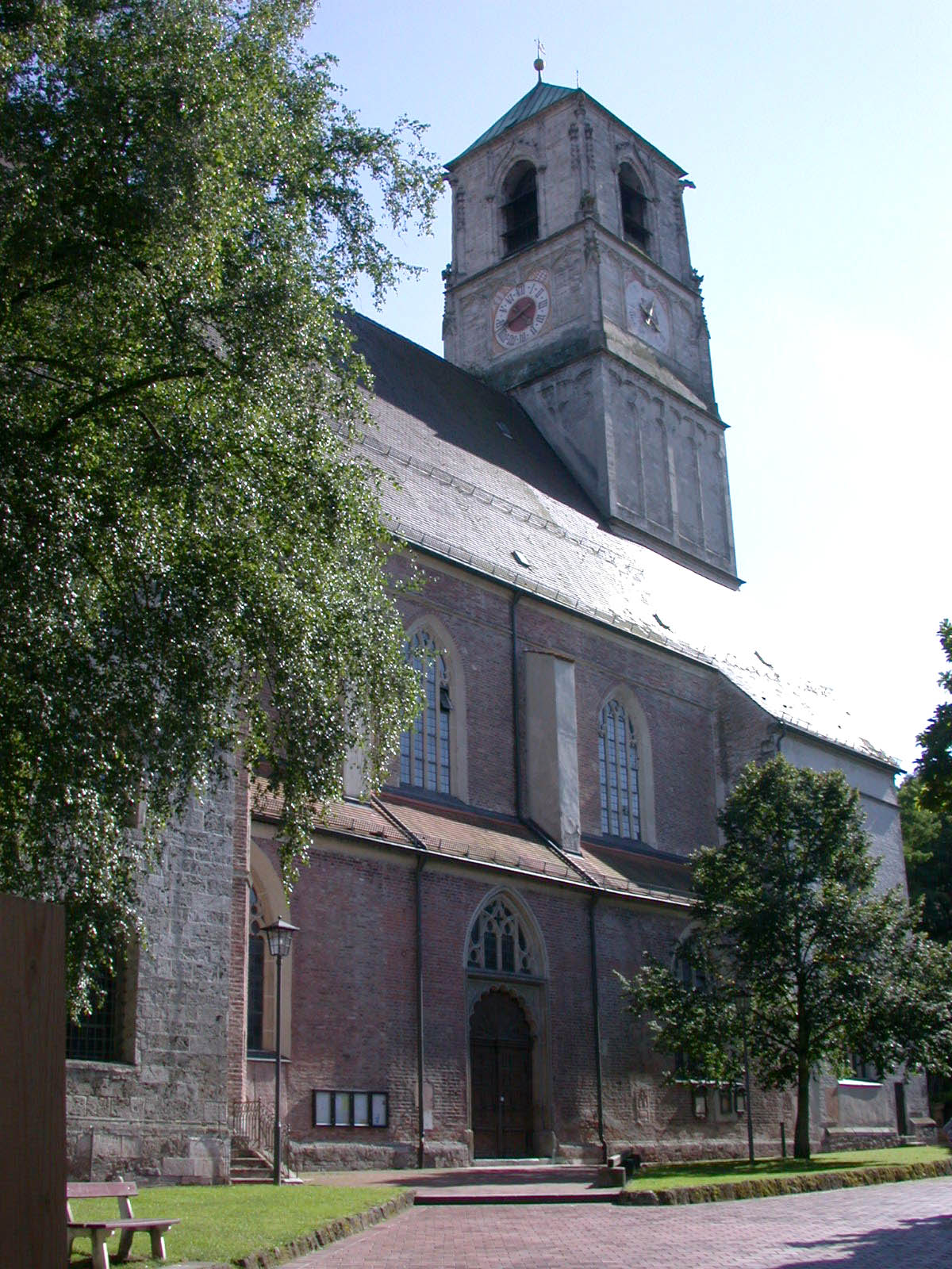 St. Jakob, Wasserburg am Inn, Germany